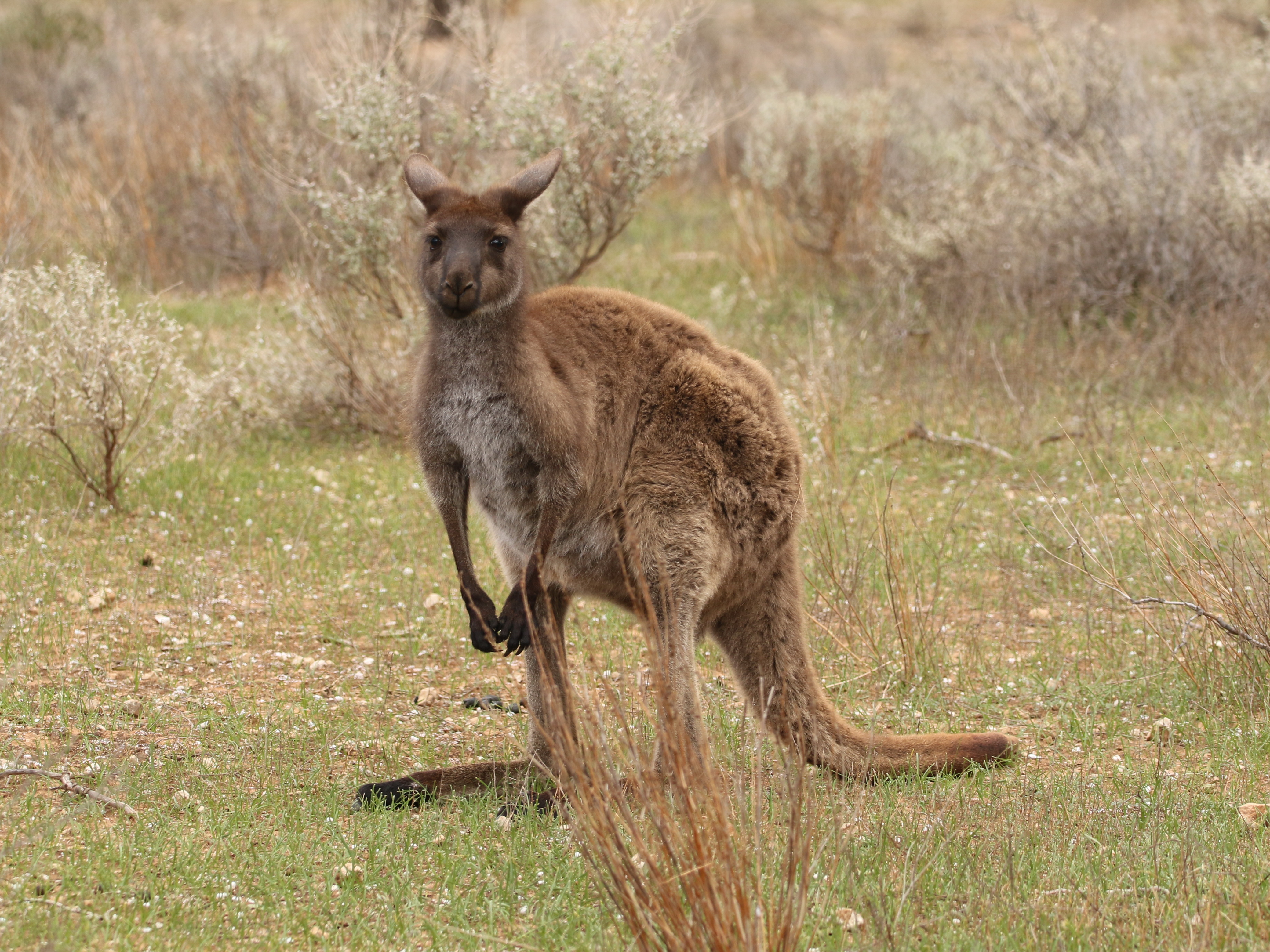 Macropus fuliginosus Desmarest, 1817, Western Grey Kangaroo, Brookfield Conservation Park, Blanchetown, South Australia, 15 August 2018